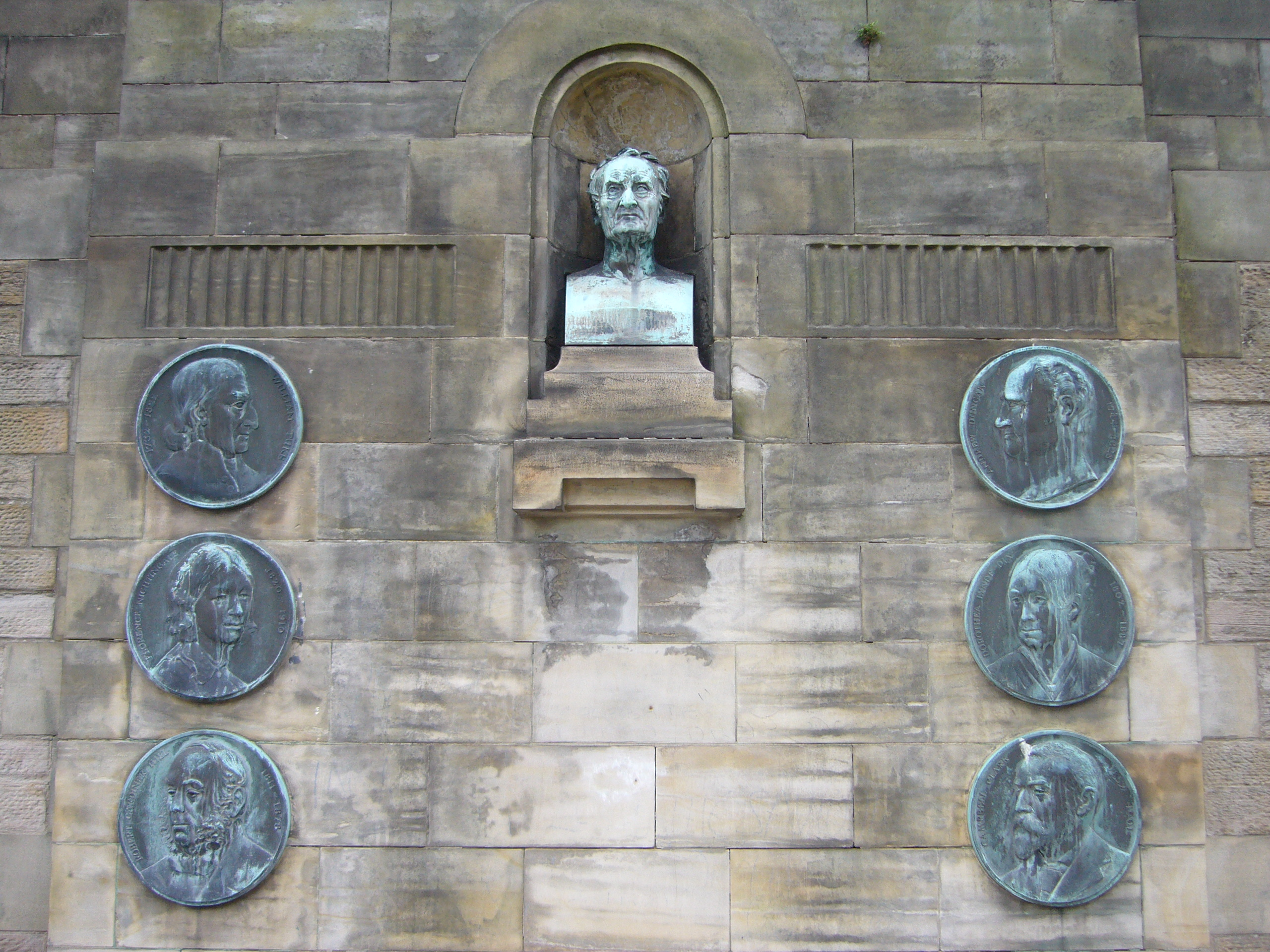 Memorial to notable figures in the development of mental health care. The bust is of the French doctor, Philippe Pinel (1745-1826), whose humane approach to patient care was a major influence on the Hospital's founders. The medallion at the top right portrays Dr Andrew Duncan who was the driving force behind its creation following the disgust he felt at the death of his patient, the poet Robert Fergusson, in the horrible conditions of the old Edinburgh bedlam. Although Duncan's original building from 1807 no longer exists, the hospital contains an Andrew Duncan Clinic named in his honour.